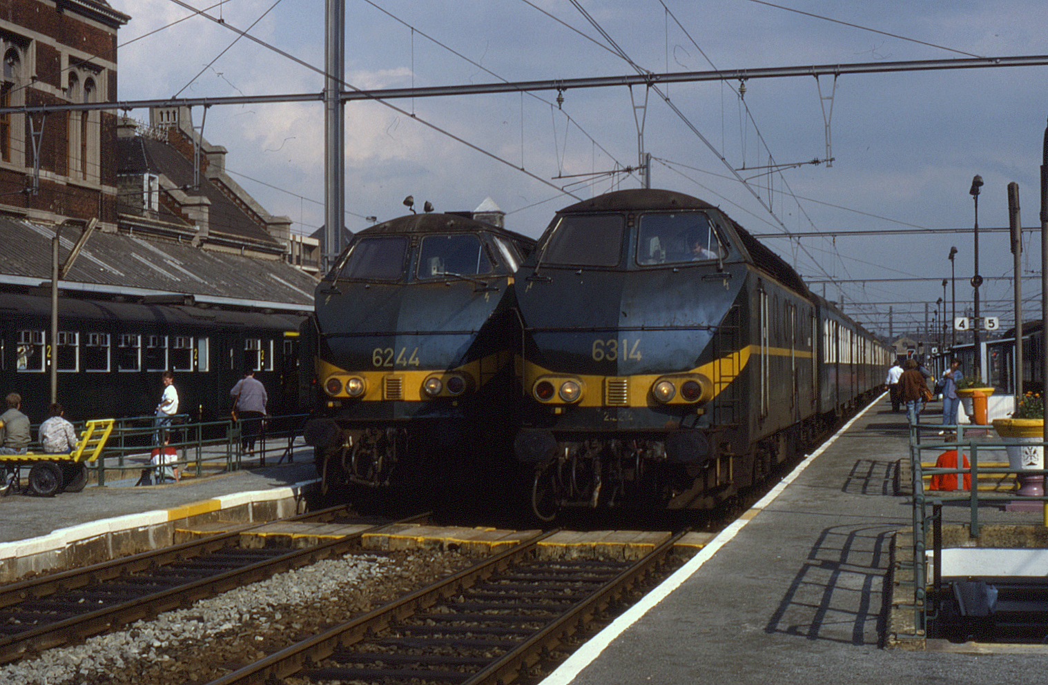 244 and 6314 sit side-by-side at Ath on 8 September 1987. 6244 had worked the 15:30 Mons to Ath whilst 6314 was in charge of the 16:15 Ath to Geraadsbergen.